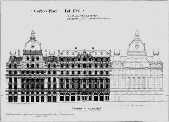 Drawing by C. J. Phipps (died 1897) for the Carlton Hotel, London.